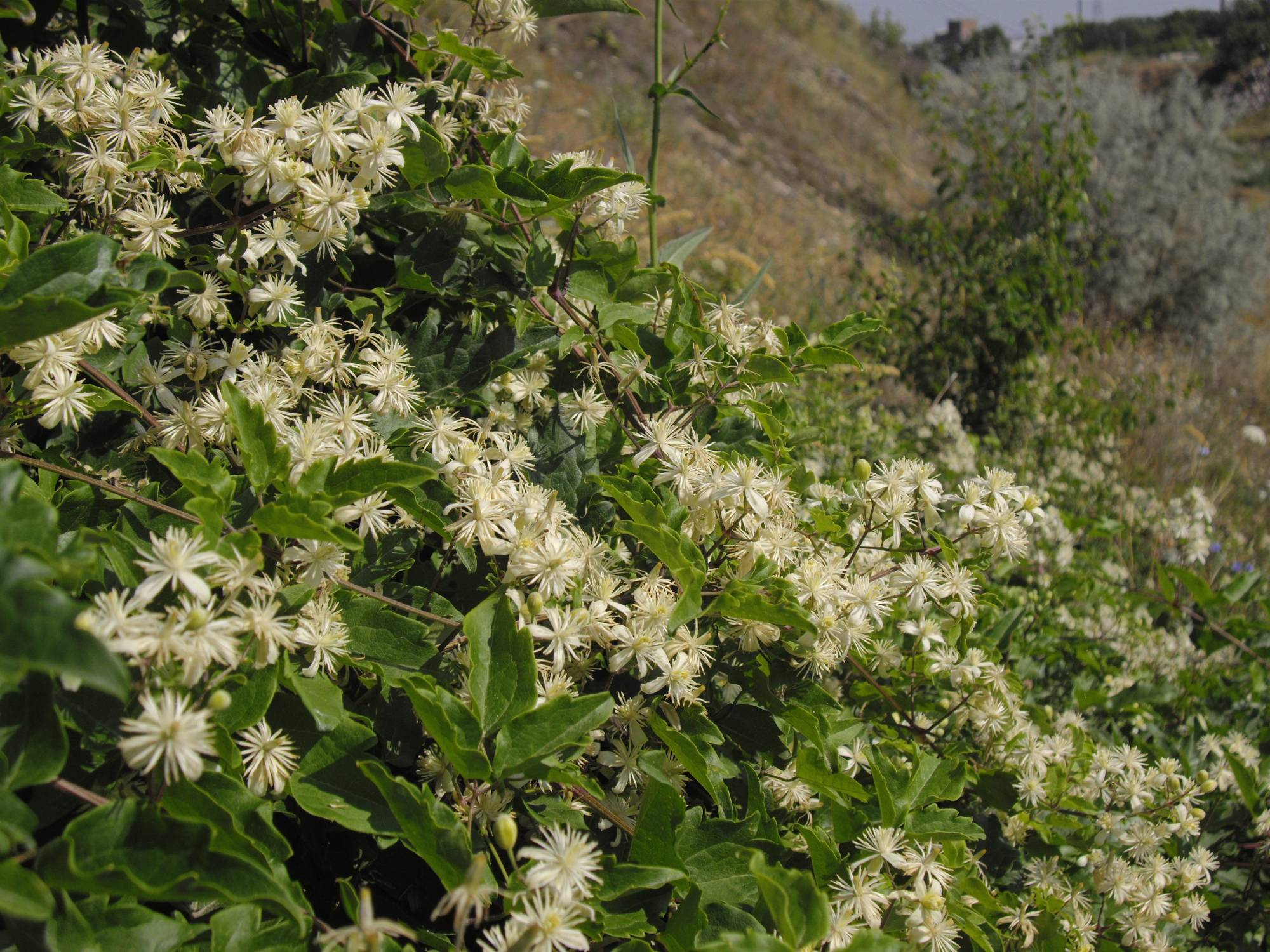 Clematis vitalba